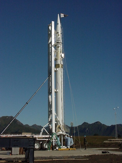 Ait 2 rocket launch from Kodiak Launch Complex. Alaska, USA.